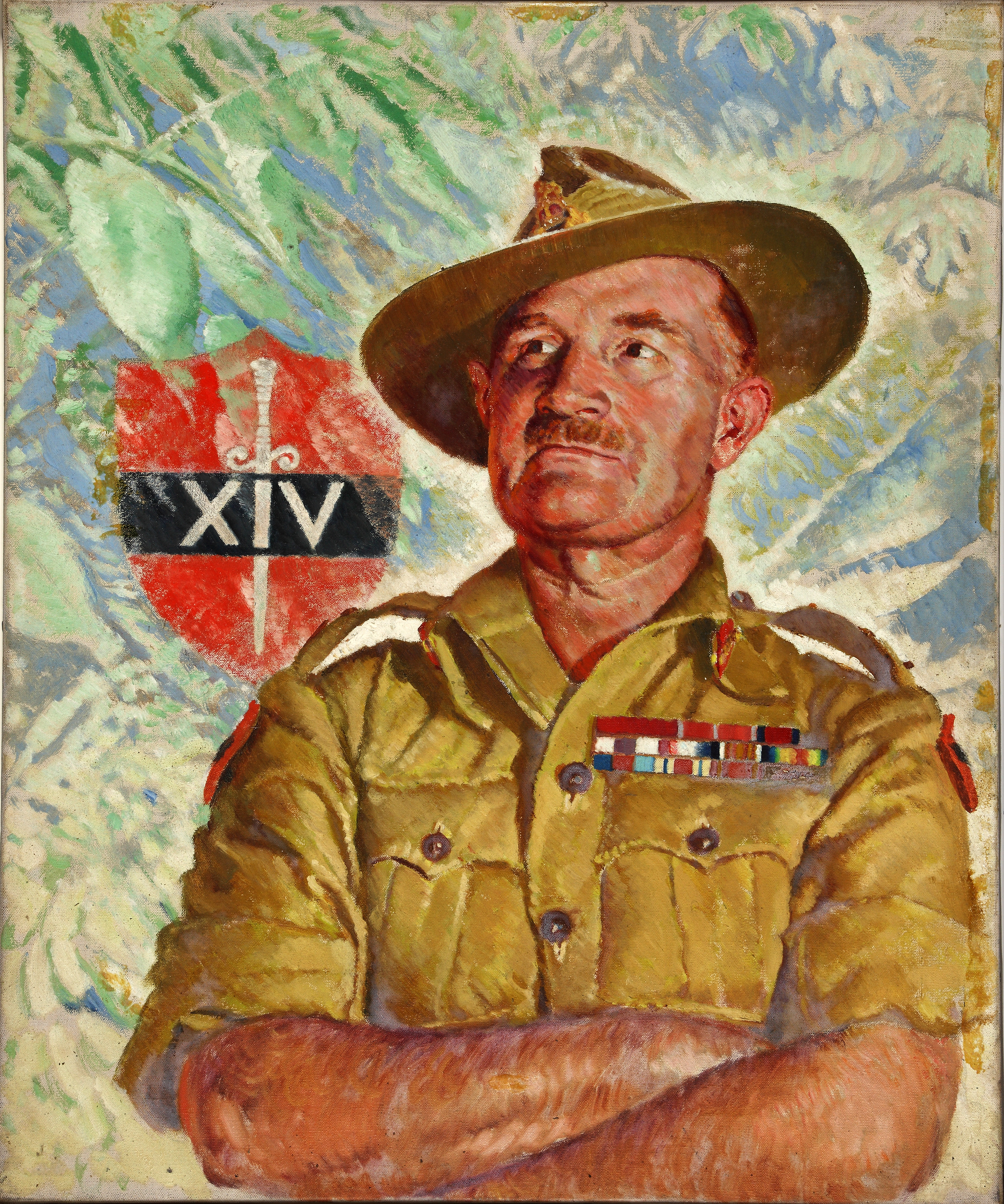 General William Slim Depicted person: William Slim, 1st Viscount Slim